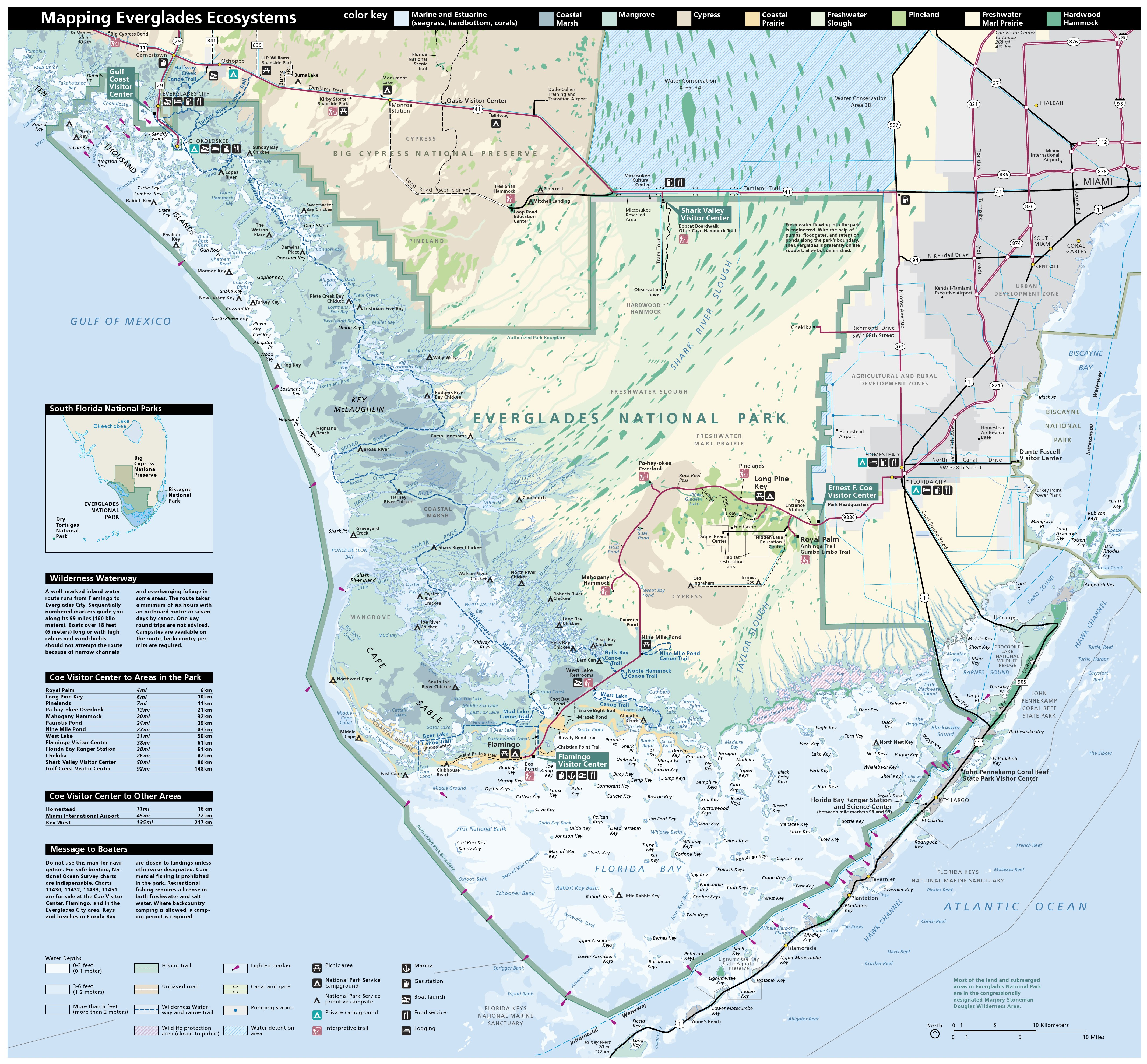 Main Everglades map from the official park brochure.